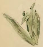 Stainton’s Natural History of the Tineina (1855–1873): Gelechia hippophaella a shoot of Hippophae rhamnoides eaten by larva